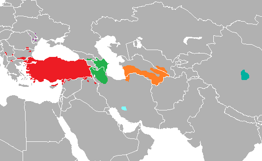 Oghuz Speaking Regions